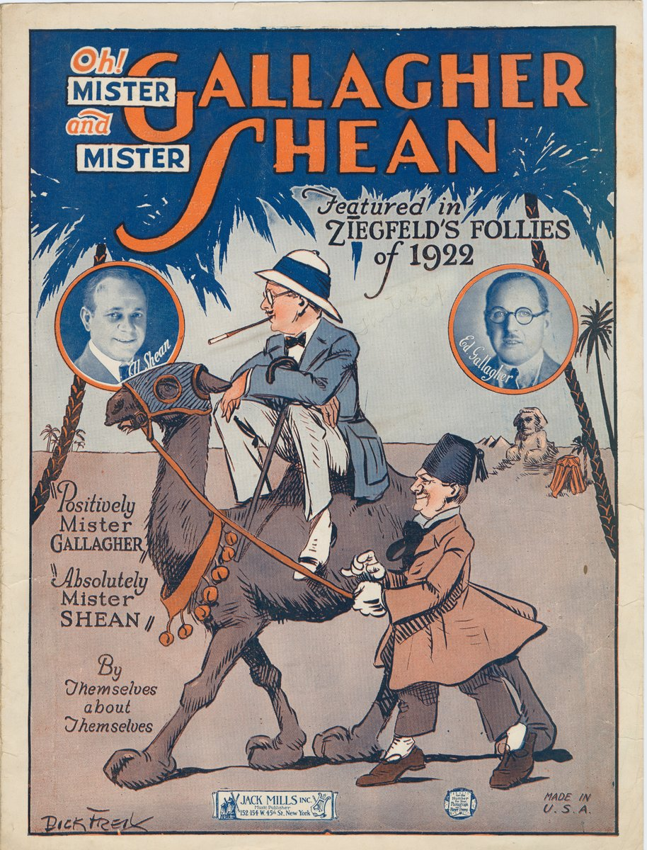 "Mister Gallagher and Mister Shean" sheet music cover, with cartoon and photos of Vaudeville stars Gallagher & Shean.